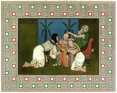 Illustration by Owen Jones from "The History of Joseph and His Brethren" (Day & Son, 1869). Scanned and archived at where it was marked as Public Domain. Text from Book: And Israel stretched out his right hand, and laid it upon Ephraim's head, who was the younger, and his left upon Manasseh's head guiding his hands wittingly. For Manasseh was the first born. Genesis, C. XLVIII. V. 14.